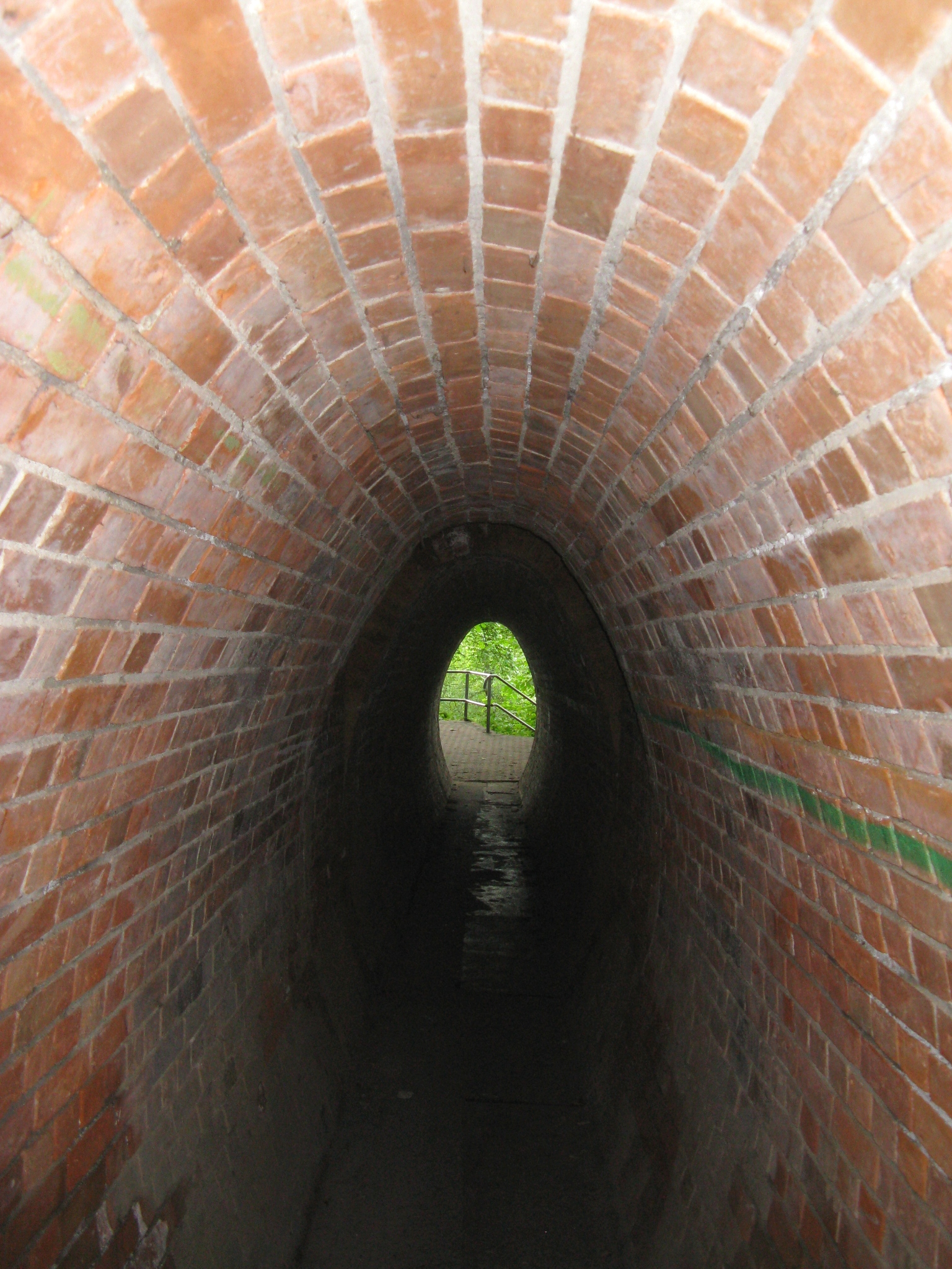 Pedestrian tunnel (so called Eiertunnel, engl. egg tunnel) in Bad Kleinen, Mecklenburg-Vorpommern, Germany. The Tunnel underpasses the railway lines Schwerin-Bad Kleinen and Lübeck-Bad Kleinen. - inside the tunnel, view to shore of the lake